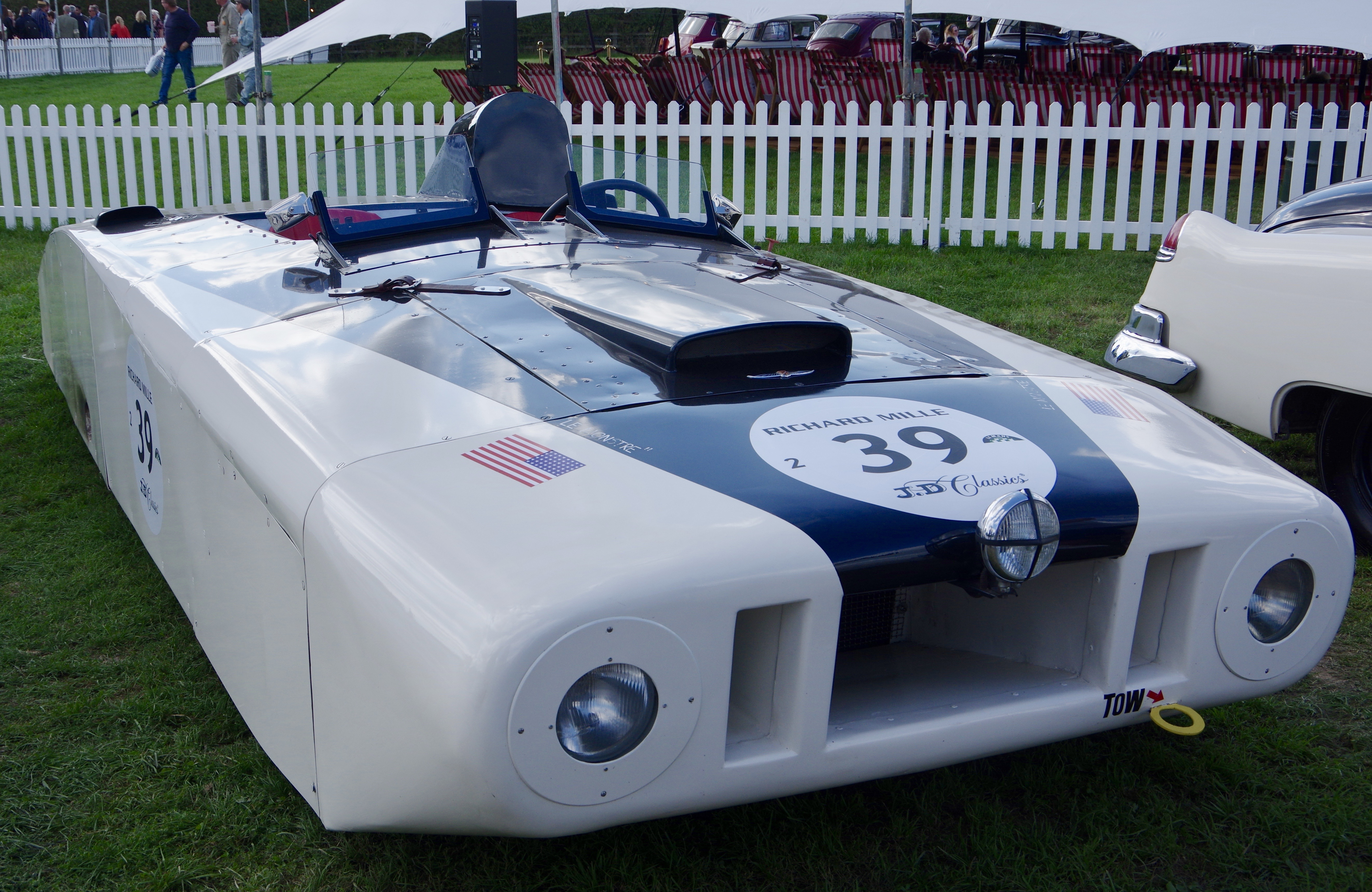 In 1950 two Cadillac 61s were entered in the Le Mans 24 hour race. One was a stock 61 series coupe. The other had a modified aerodynamic body, nicknamed by the French press "Le Monster". They finished 10th and 11th respectively Goodwood Revival 2018